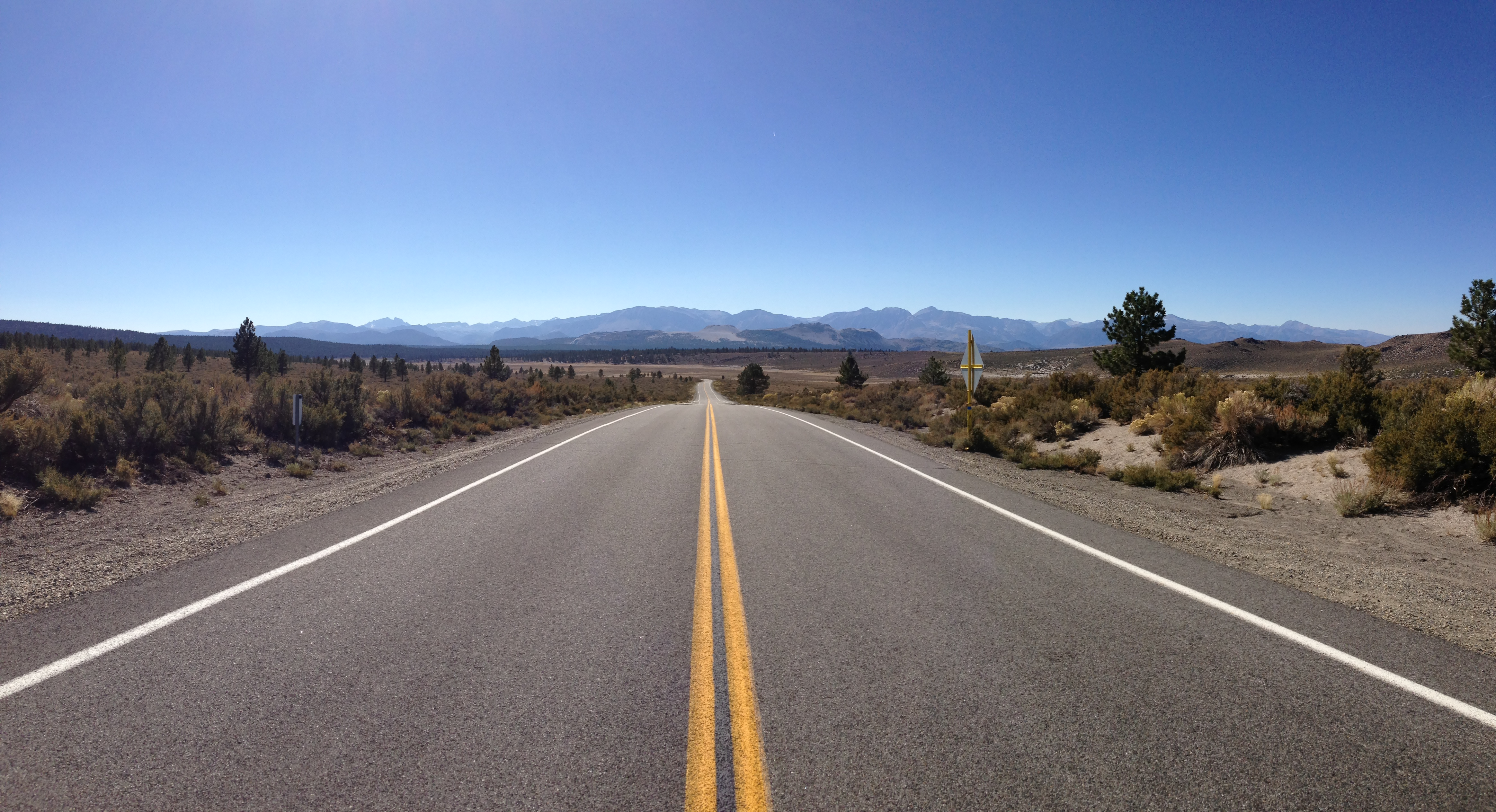 View west along California State Route 120 from Sagehen Summit